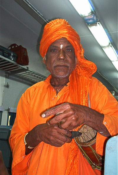 I took this photograph in 2006 in West Bengal - Saul Chavez